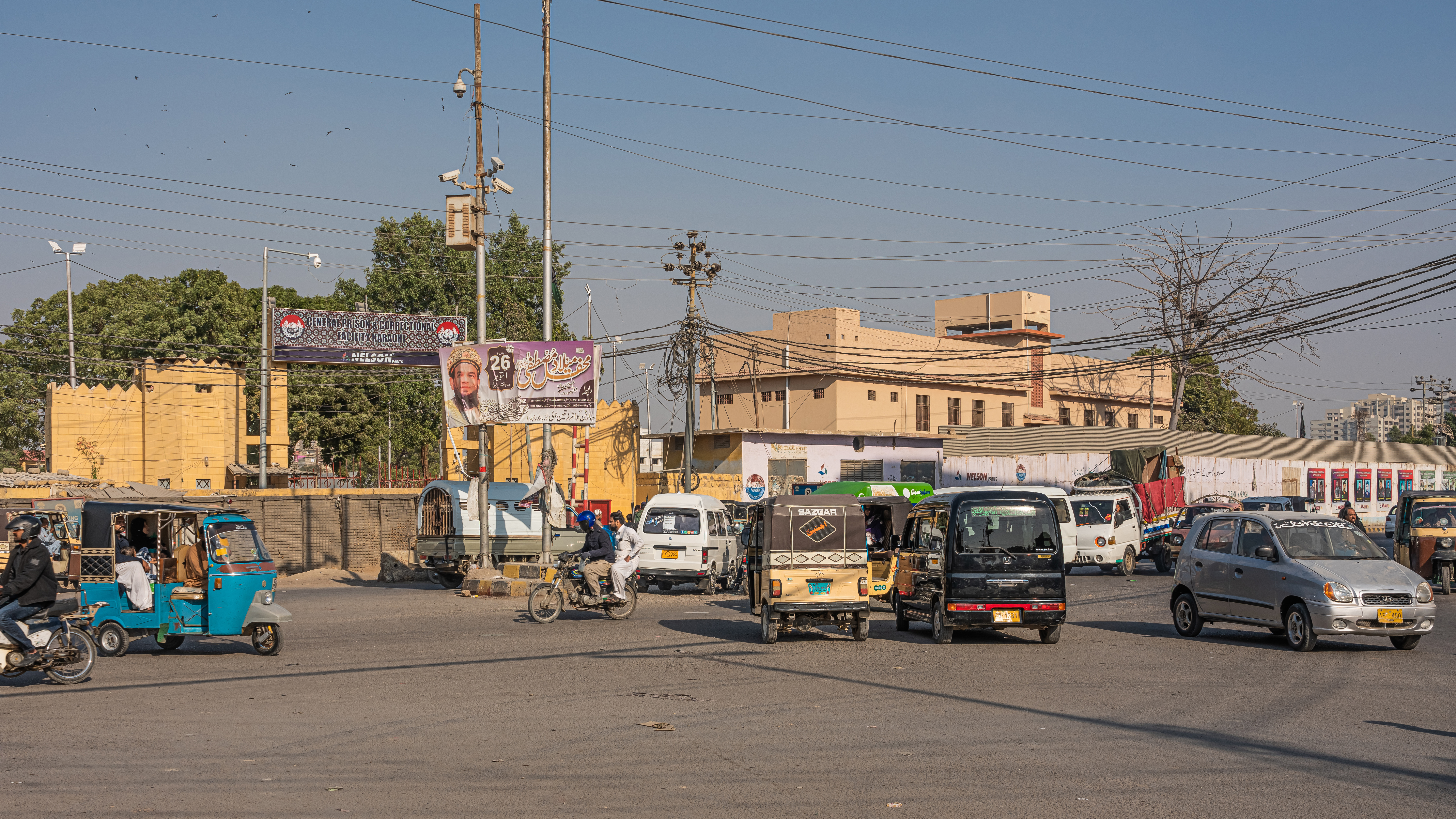 Gates and buildings of the Central Prison in Karachi, Pakistan